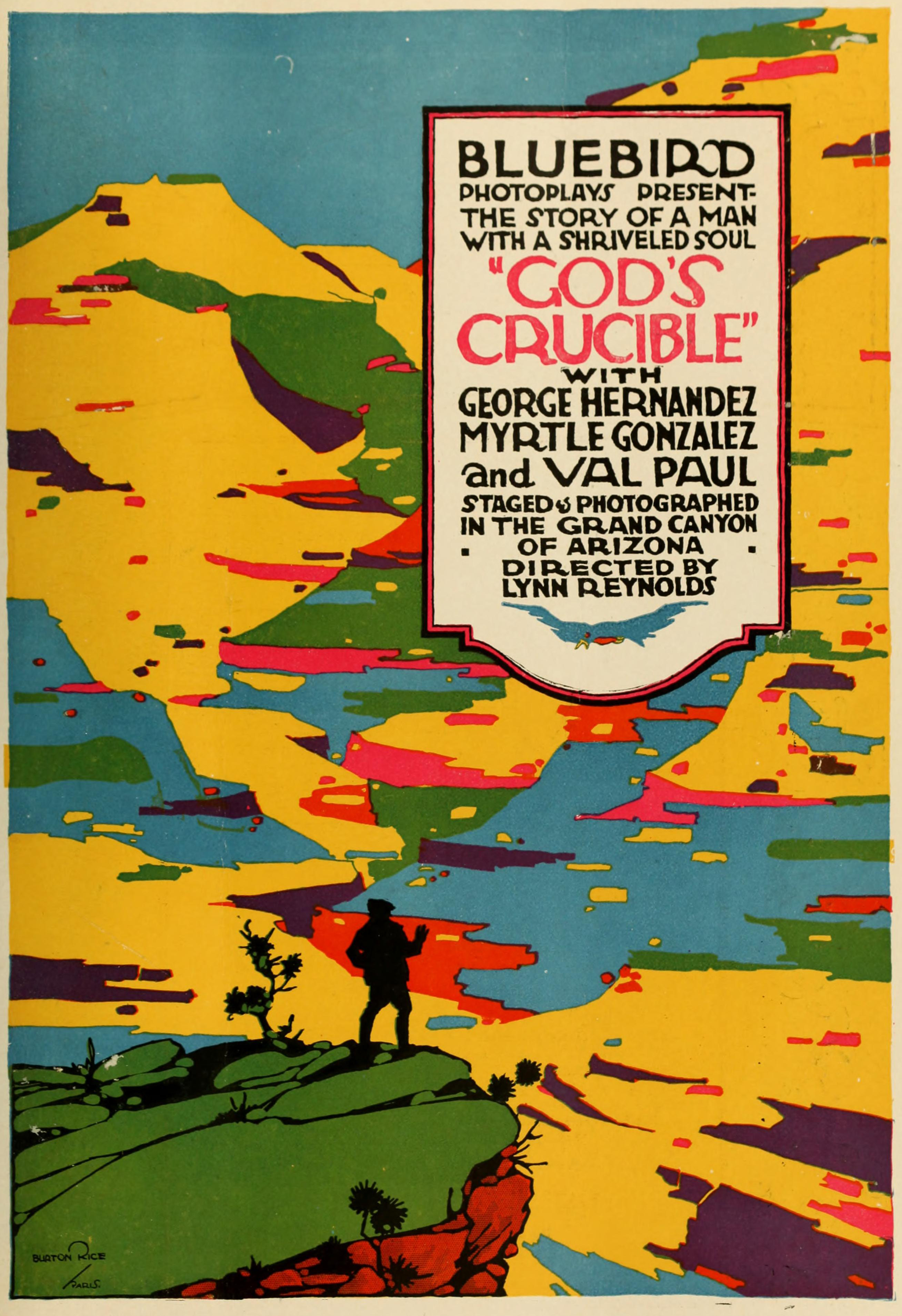 Advertisement in The Moving Picture World